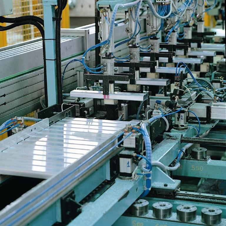 Fondital, Vobarno (BS) Italy